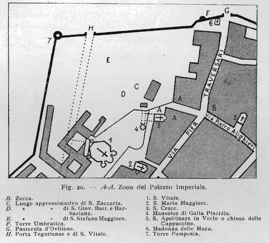 Map of the Imperial part of Ravenna. Used in the article by Corrado Ricci: Il Sepolcro di Galla Placida in Ravenna, parte II in Bollettino d'Arte XII 1913.